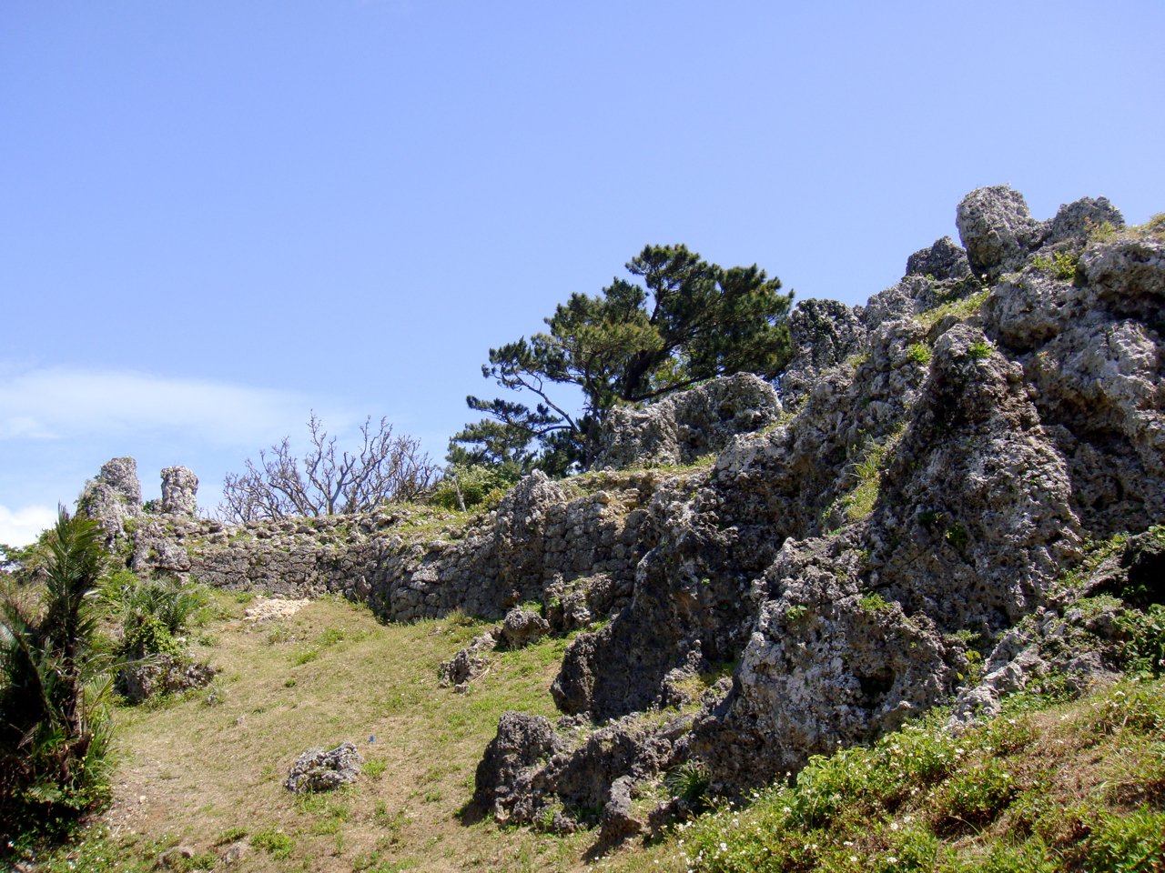 About 800 years old castle. Tree is Pinus luchuensis. Uroase Gusuku, Okinawa, Japan. (Sony Cyber-shot T77)